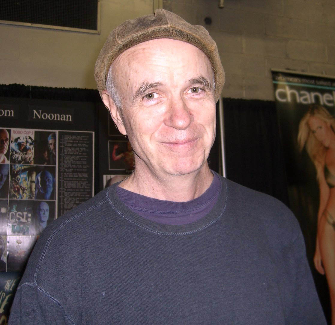 Actor Tom Noonan at the Big Apple Convention in Manhattan. Photographed by Luigi Novi. This photo may only be used if the photographer is properly credited. (See Licensing information below.)